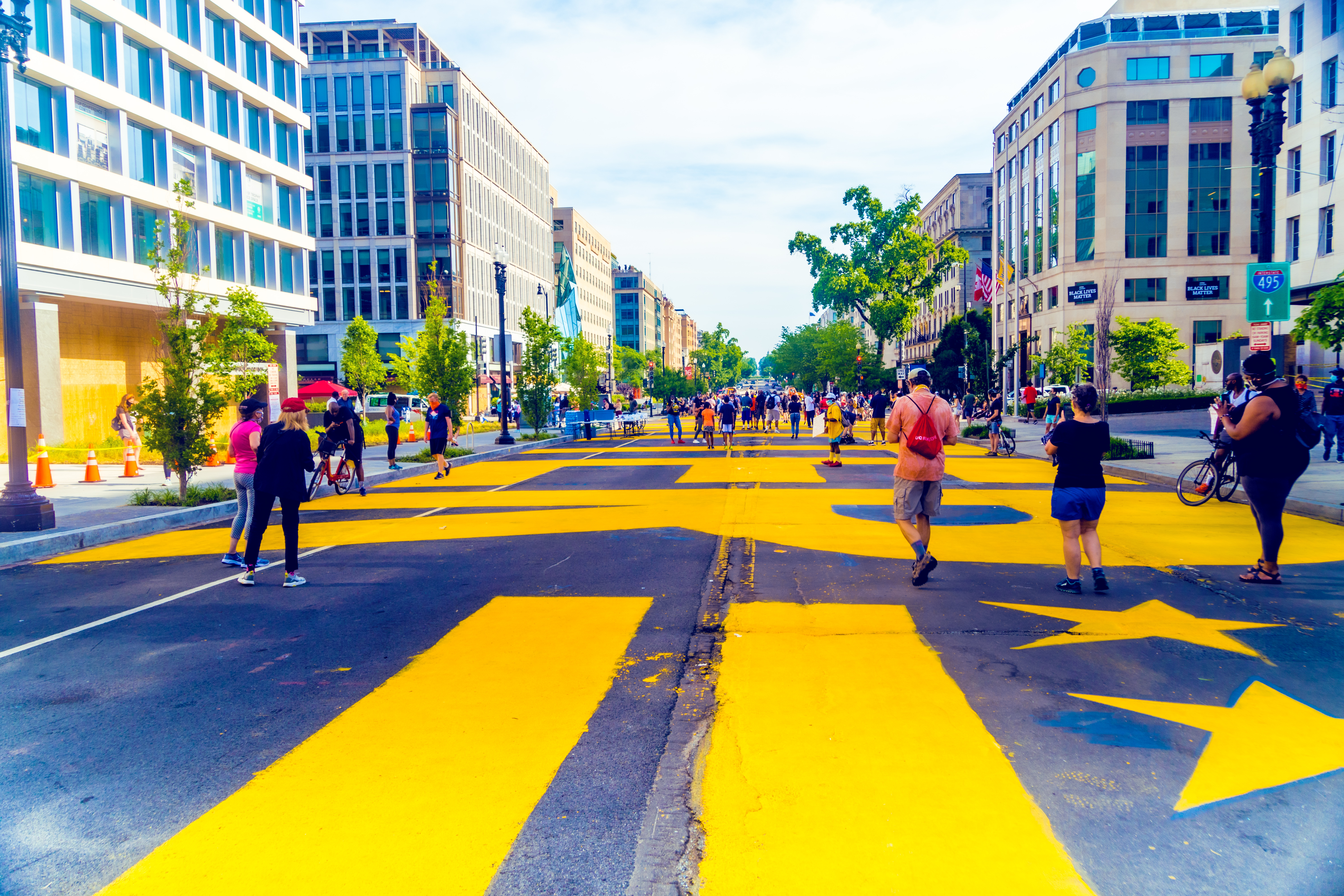 Black LIves Matter Plaza, created by the Government of the District of Columbia, in the wake of the murder of George Floyd